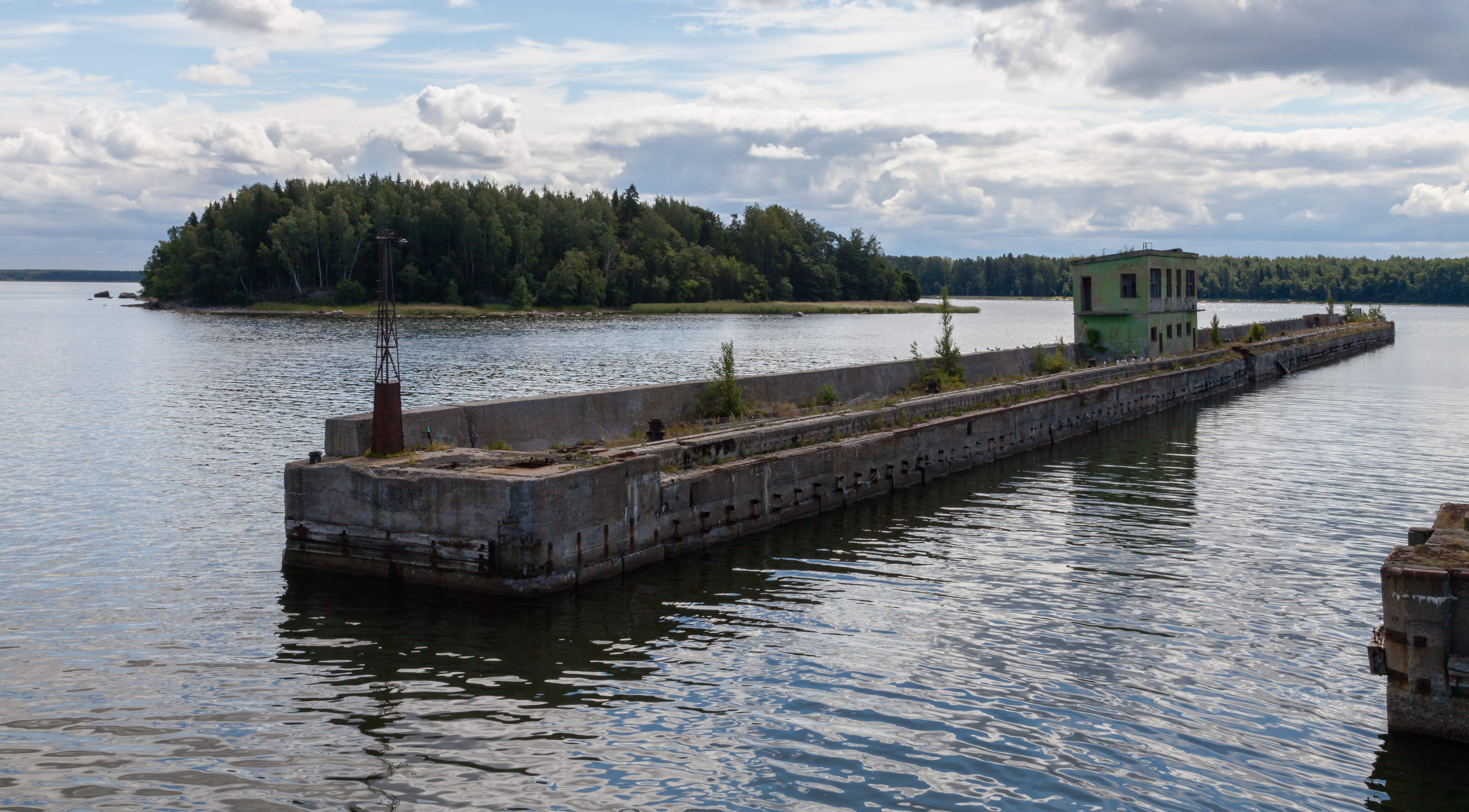 Former soviet submarine base, Lahemaa National Park, Estonia